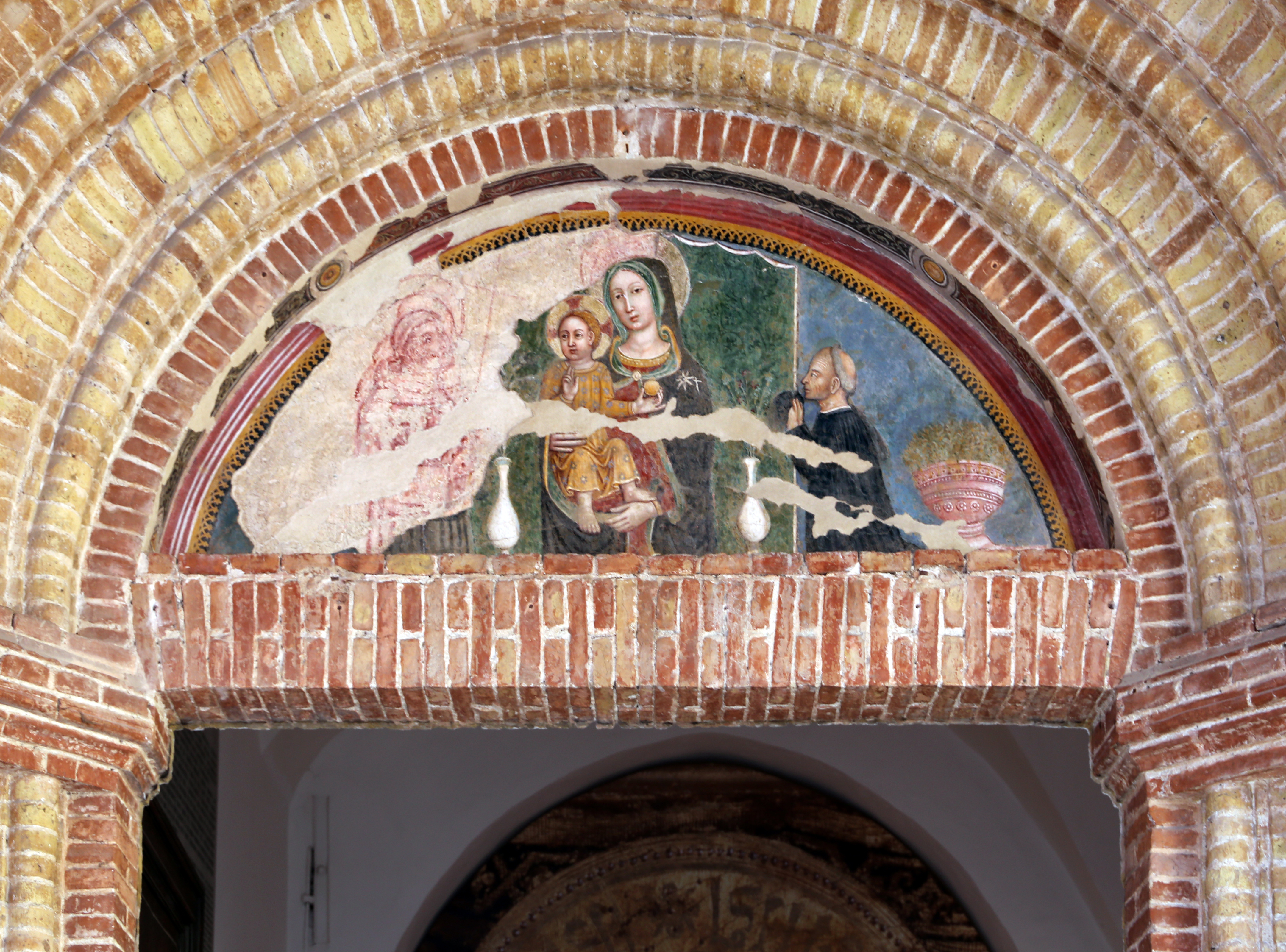 Fabriano